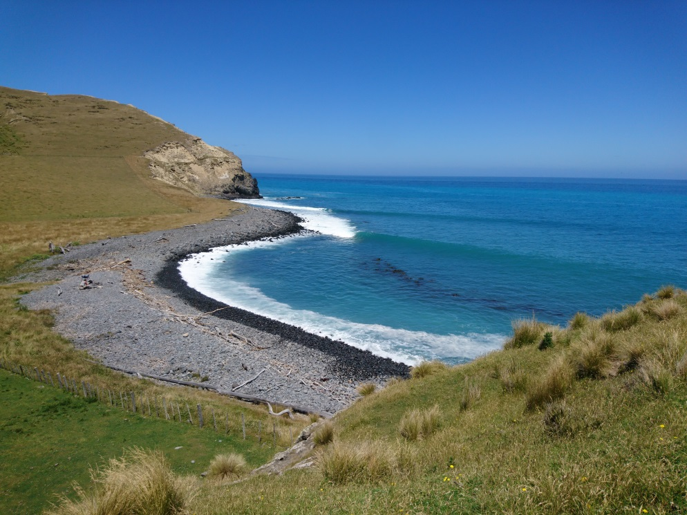 Surf rolling in at Magnet Bay